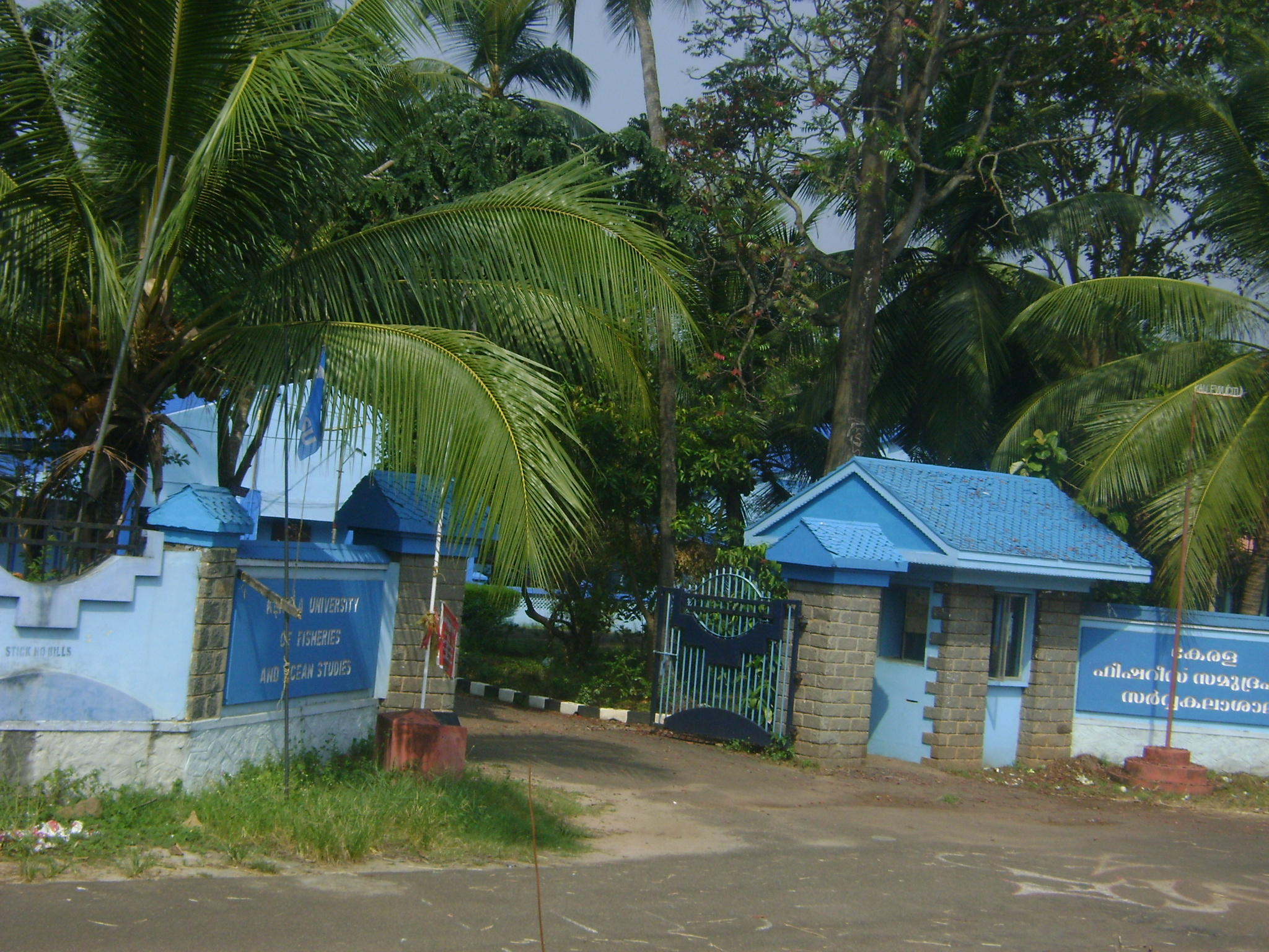 The university of fisheries and oceanstudies in Kerala